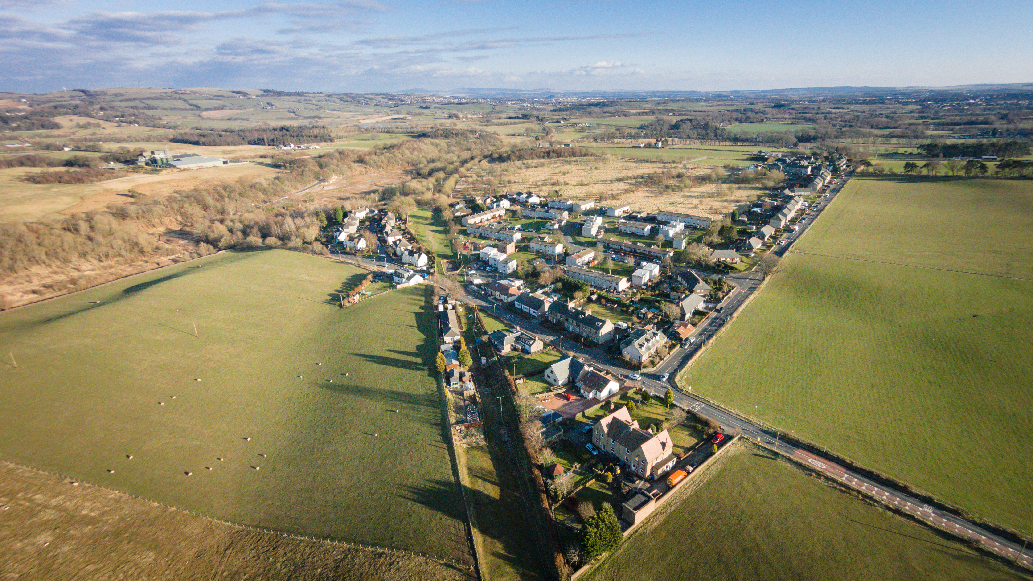 Quiet little village in the county of West Lothian, Scotland. Nr J5 of M8 and J5 M9. Edinburgh, Glasgow and Perth city centres 45 minute drive.